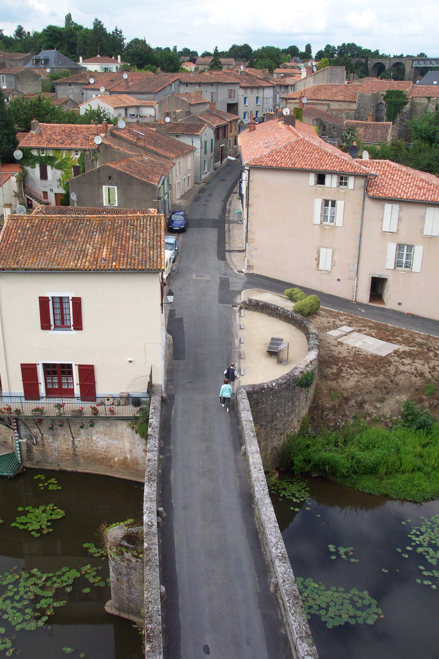 The Faubourg Saint-Jacques in Parthenay, photographed from the roof of the Saint-Jacques Gate, and looking away from the town centre. The Pont Saint-Jacques across the River Thouet can be seen immediately in front of the gate. For more information, see the Wikipedia article Parthenay.